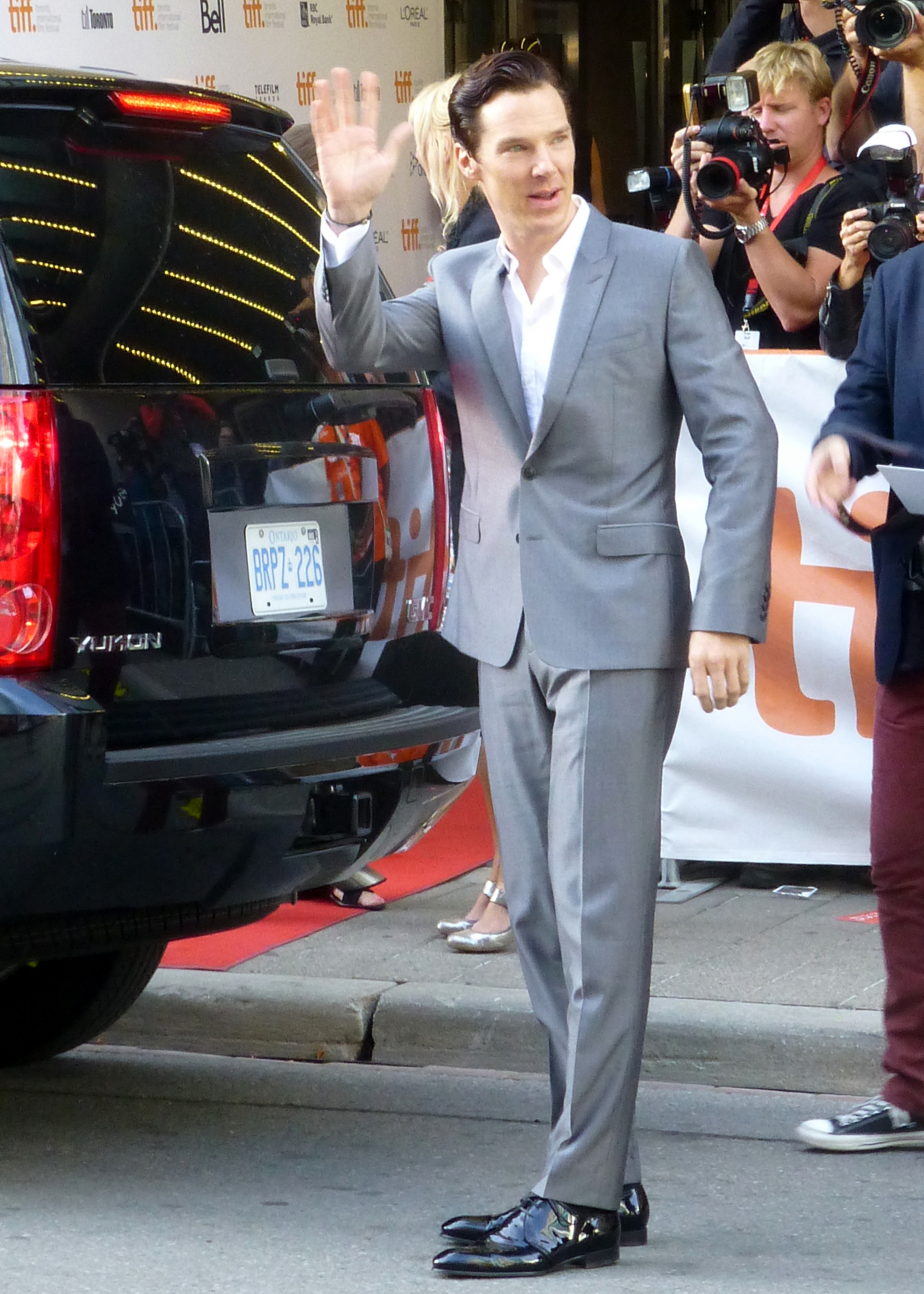 Benedict Cumberbatch at the premiere of 12 Years a Slave, 2013 Toronto Film Festival